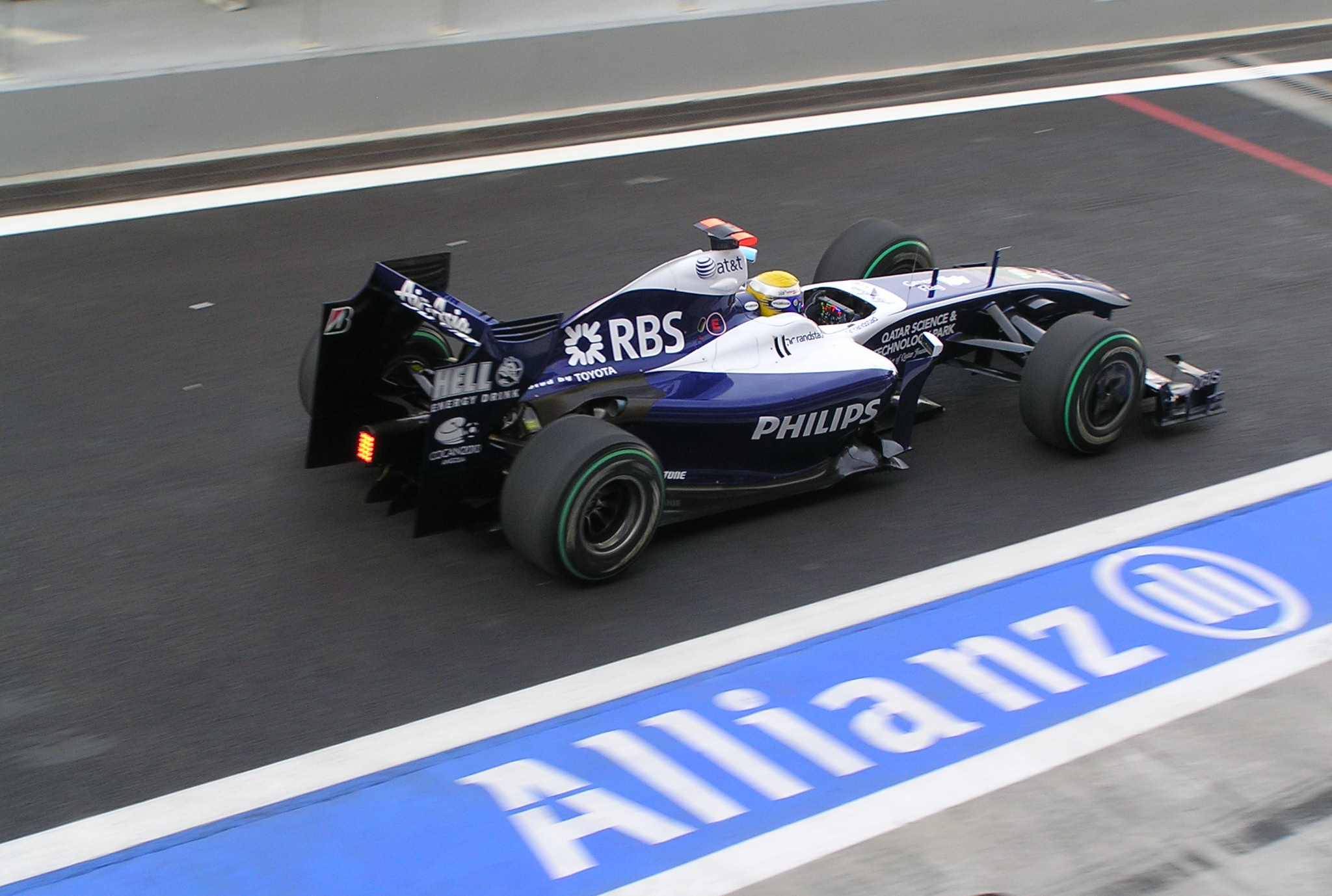 Nico Rosberg driving for Williams at the 2009 Abu Dhabi Grand Prix